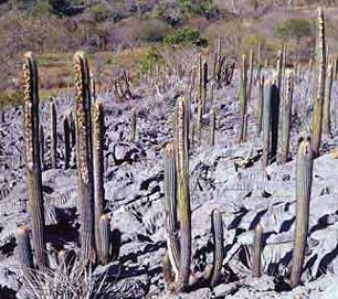 SW Carinanha Bahia Brasil